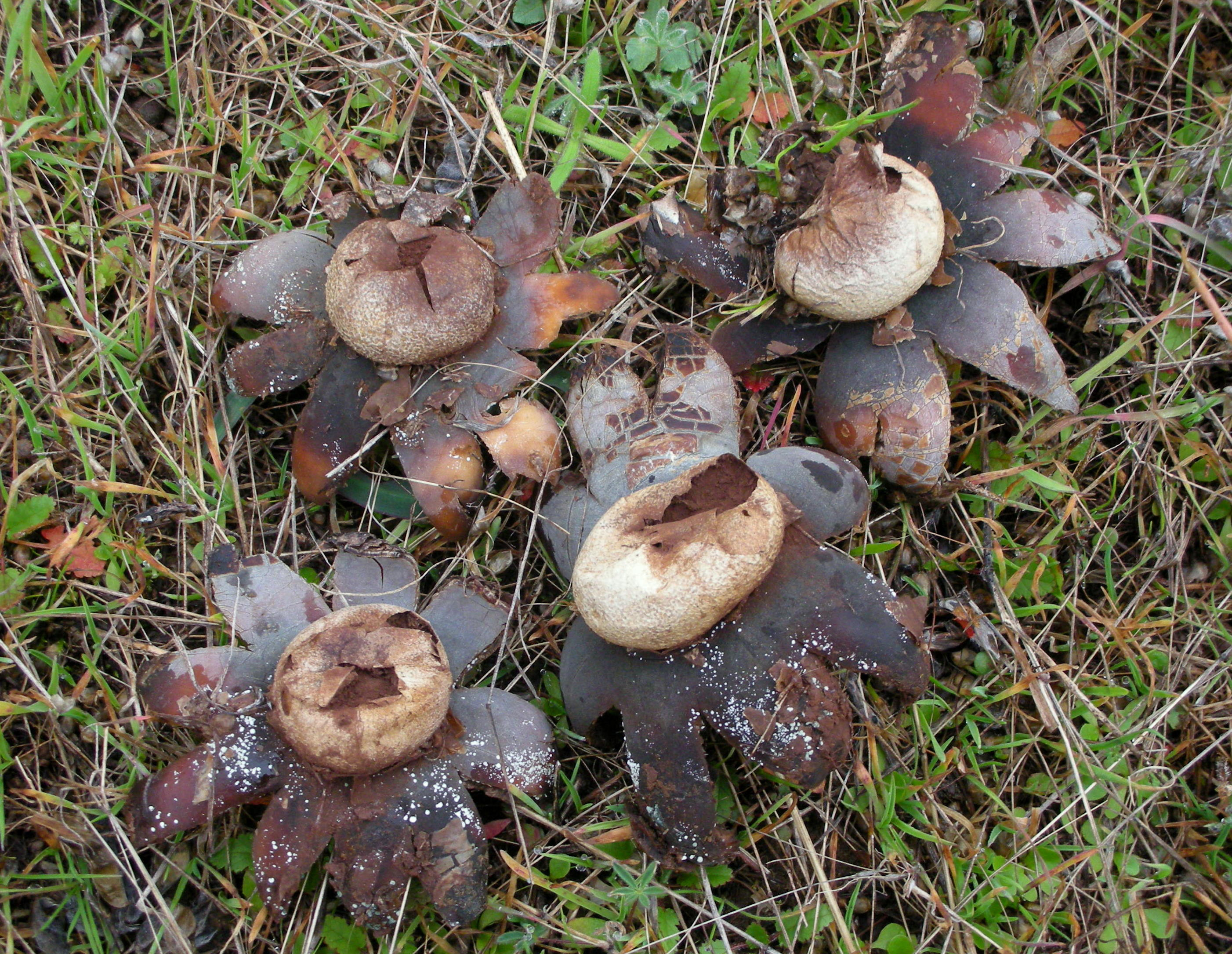 Fruit bodies of the false earthstar fungus, Astraeus pteridis. Specimens photographed in Alpine Lake, Marin Co., California, USA.